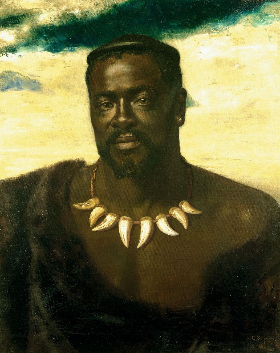 Cetshwayo, King of the Zulus (d. 1884) Creator: Carl Rudolph Sohn (1845-1908) (artist) Creation Date: Signed and dated 1882 Materials and techniques: Oil on canvas Dimensions: 69.1 x 54.6 cm Acquirer: Queen Victoria, Queen of the United Kingdom (1819-1901) Provenance: Painted for Queen Victoria Description: Carl Rudolph was the son of Carl Ferdinand Sohn (1805-1867); the father was known to Queen Victoria through his portrait of the Queen of Hanover (RCIN 405078); the son was employed by members of the Royal Family 1882-6. Cetshwayo was the nephew of the great King Shaka and succeeded his father Mpande as King of the Zulus in 1873. In the Zulu war the British at first suffered a heavy defeat at the hands of the Zulus at Isandhlwana, but eventually destroyed the Zulu army at Ulundi. Cetshwayo was captured and taken into custody in 1879. Two years later he was freed and came to England, accompanied by three chiefs, when this portrait was painted. The artist had difficulty finding a set of lion’s teeth for the portrait, but located a collector who had a lion’s skull. Queen Victoria wrote in her Journal that she found Cetshwayo ‘a very fine man, in his native costume, or rather no costume…tall, immensely broad, & stout, with a good humoured countenance, & an intelligent face’. The painting was exhibited at the Royal Academy in 1883. Signed and dated: C.Sohn jr / 1882.